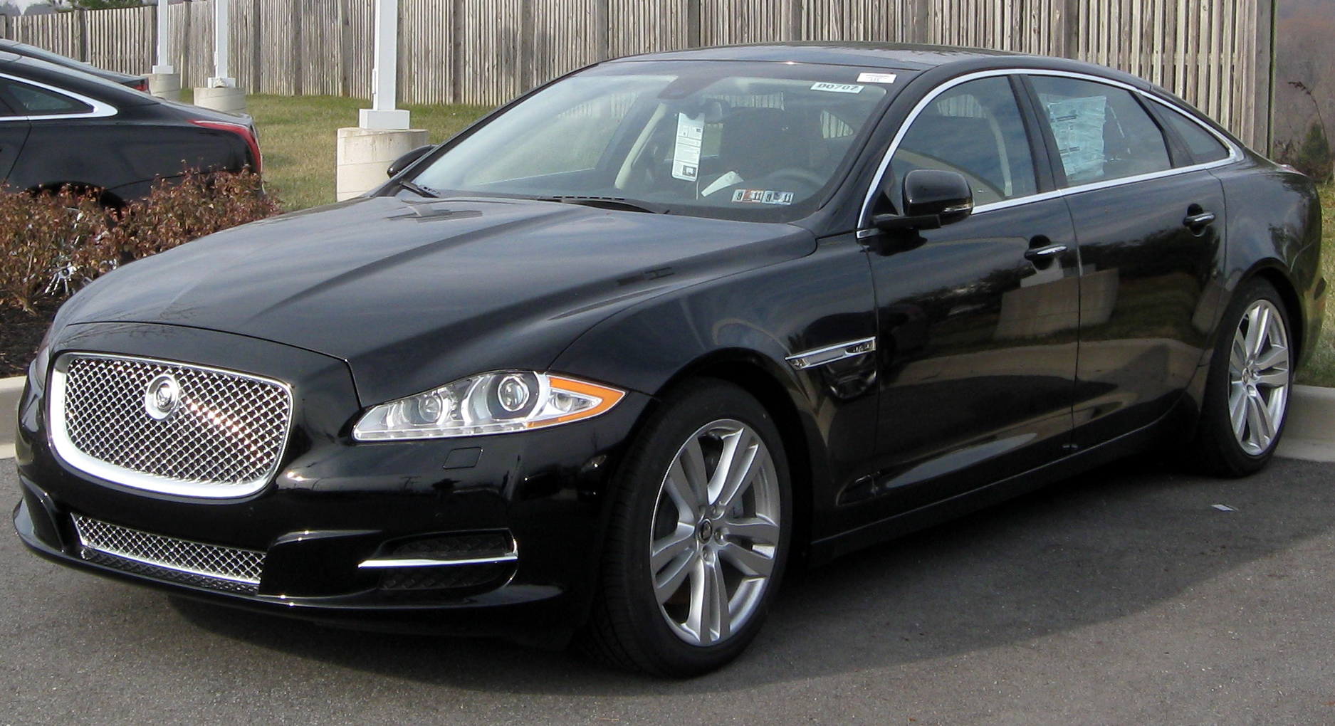 2011 Jaguar XJ8 photographed in Clarksville, Maryland, USA.